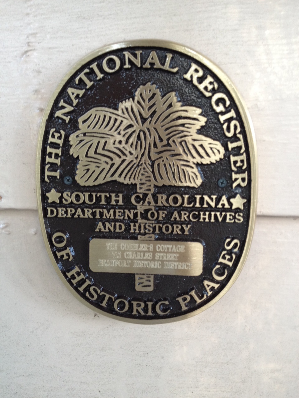 National Register of Historical Places plaque through South Carolina for The Cobbler’s Cottage.